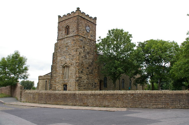 St James' parish church, Church, Lancashire, seen from the southwest